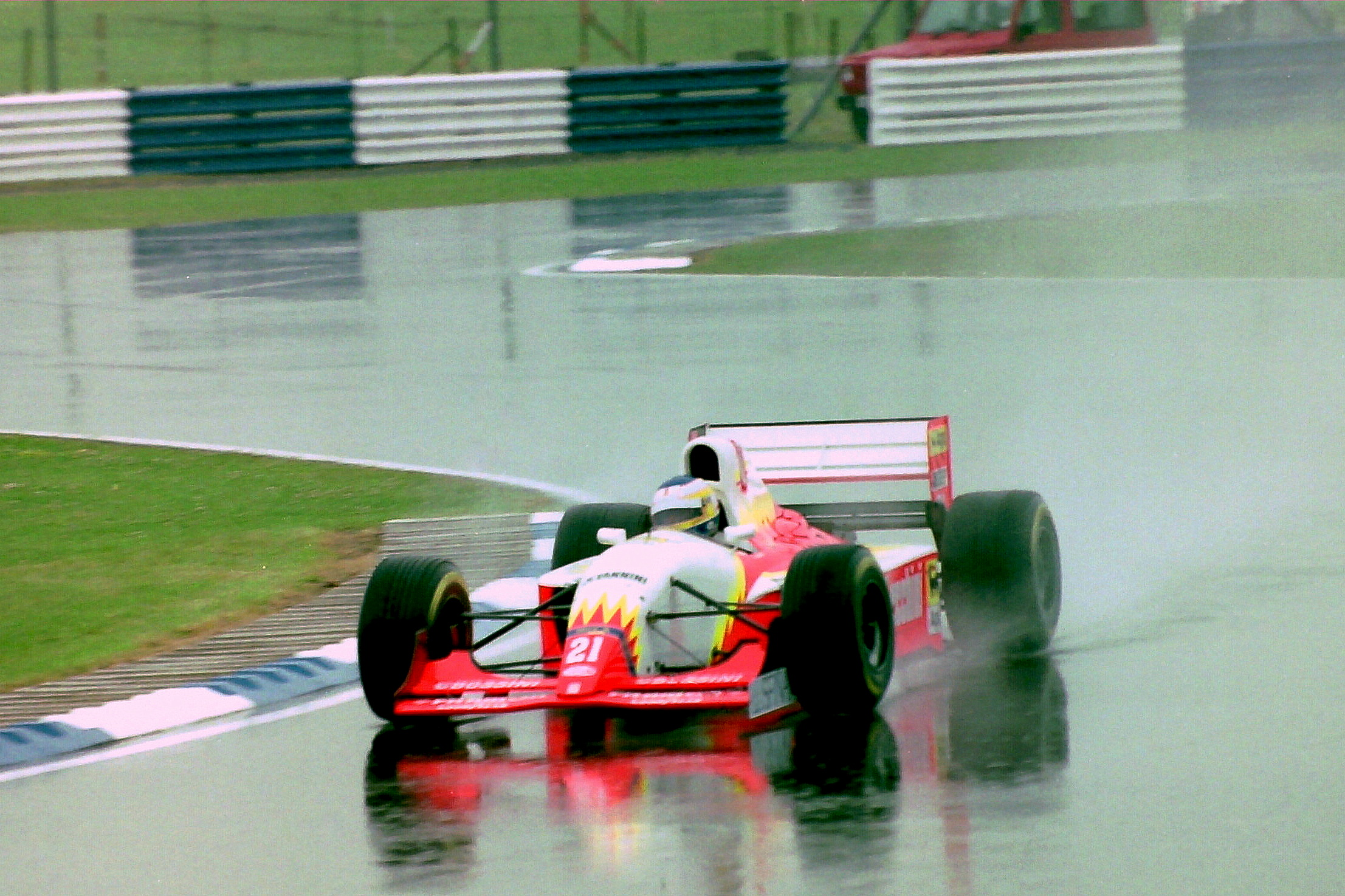 Michele Alboreto - Lola T93-30 during practice for the 1993 British Grand Prix